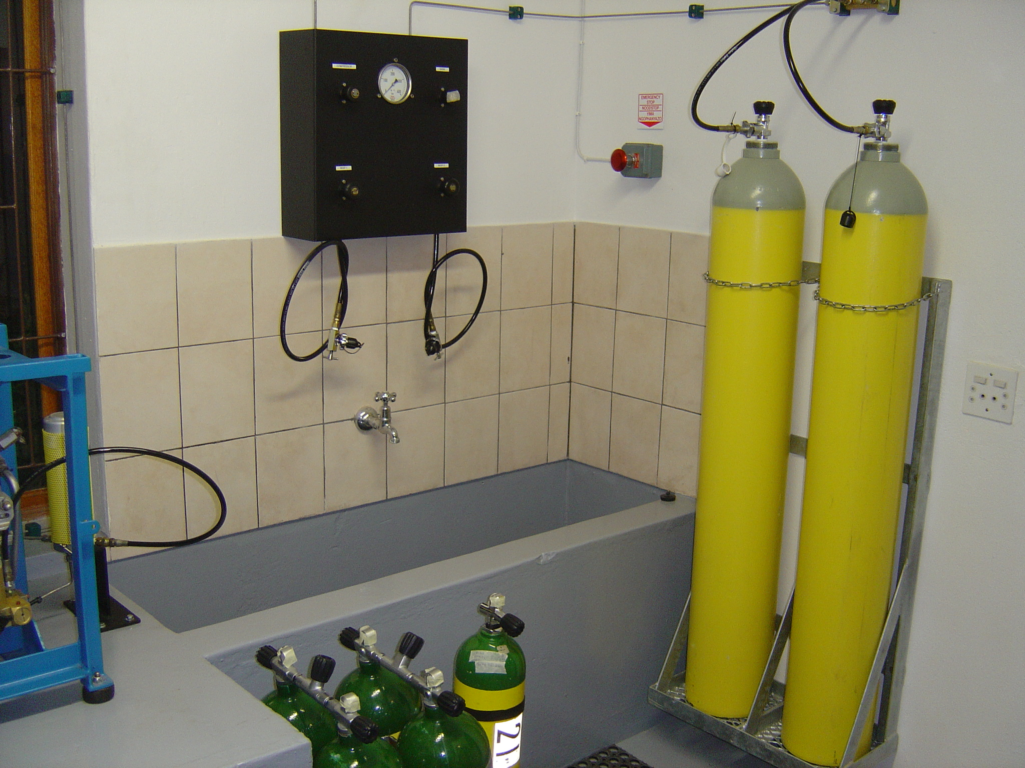 Private filling and blending station for diving gas